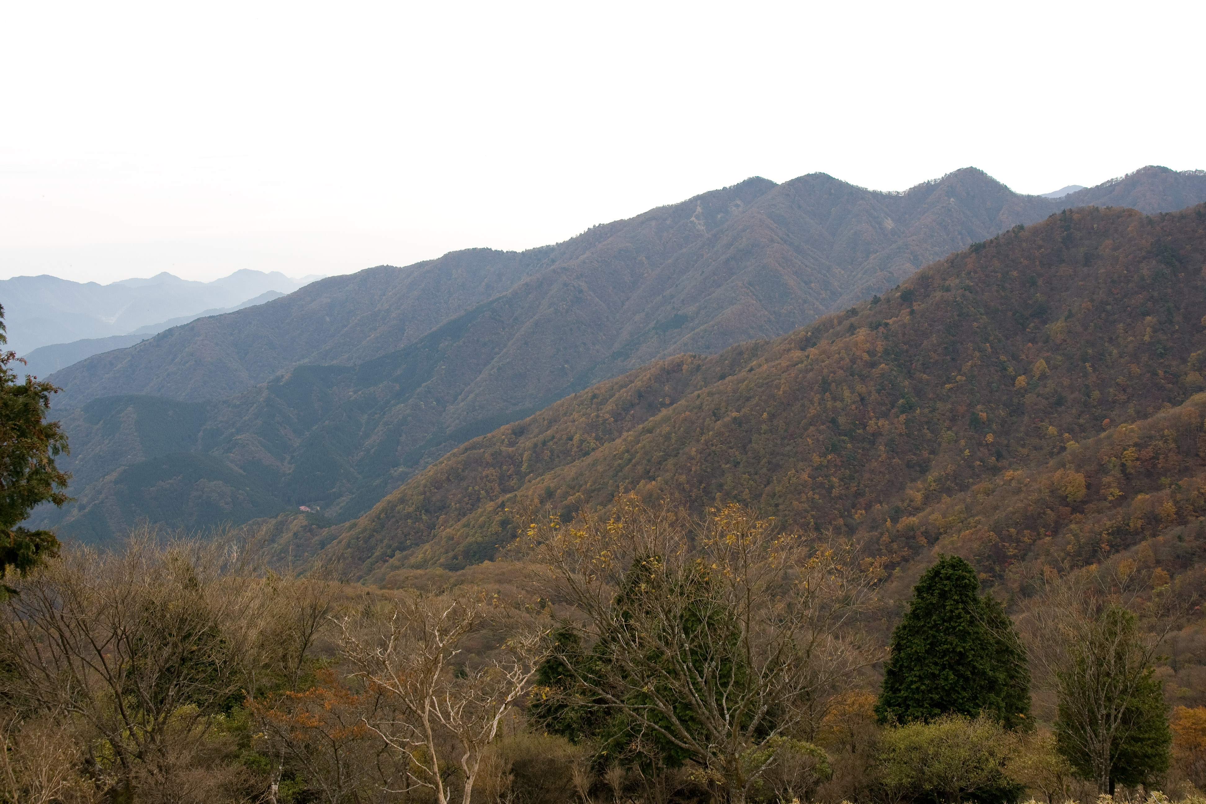 Tanzawa-mitsumine as seen from Tennoji ridge in Mts.Tanzawa, Kanagawa Pref, Japan.